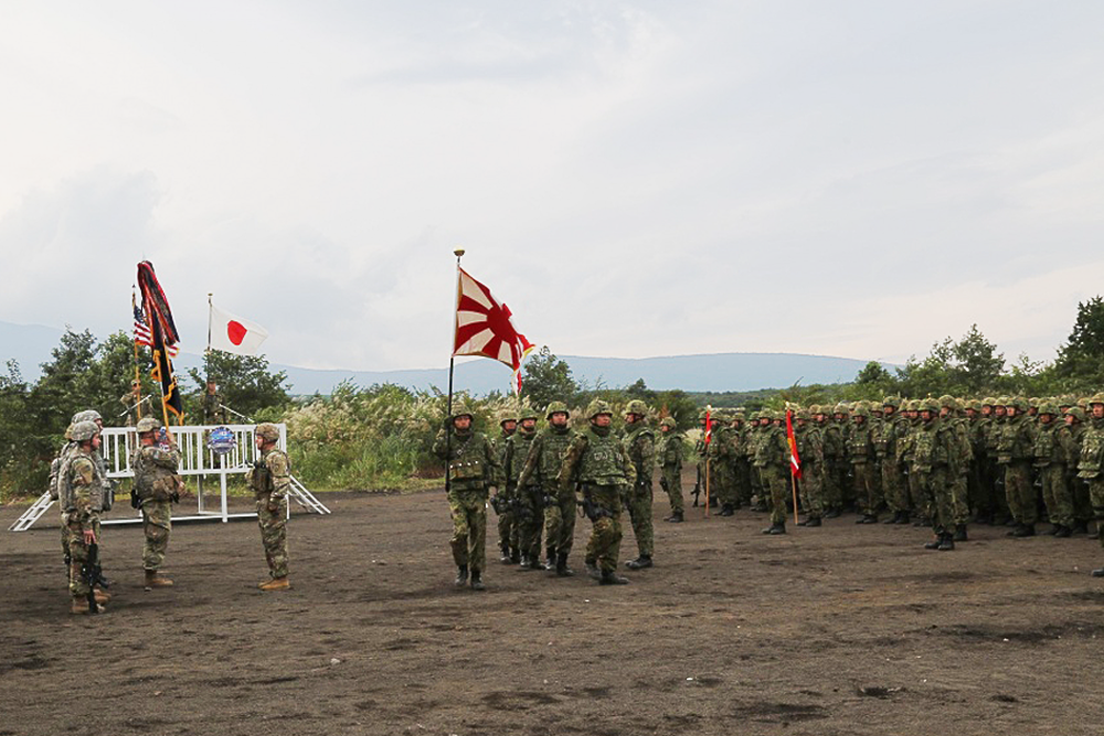 U.S. Soldiers assigned to U.S. Army Pacific (USARPAC) and Japan Ground Self-Defense Force (JGSDF) participate in the Orient Shield 2017 opening ceremony at Camp Shin Yokotsuka, Sept. 11, 2017.